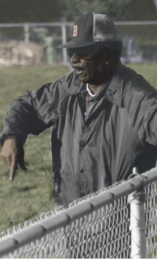 I took this picture in the spring of 1984 while watching a City baseball game.